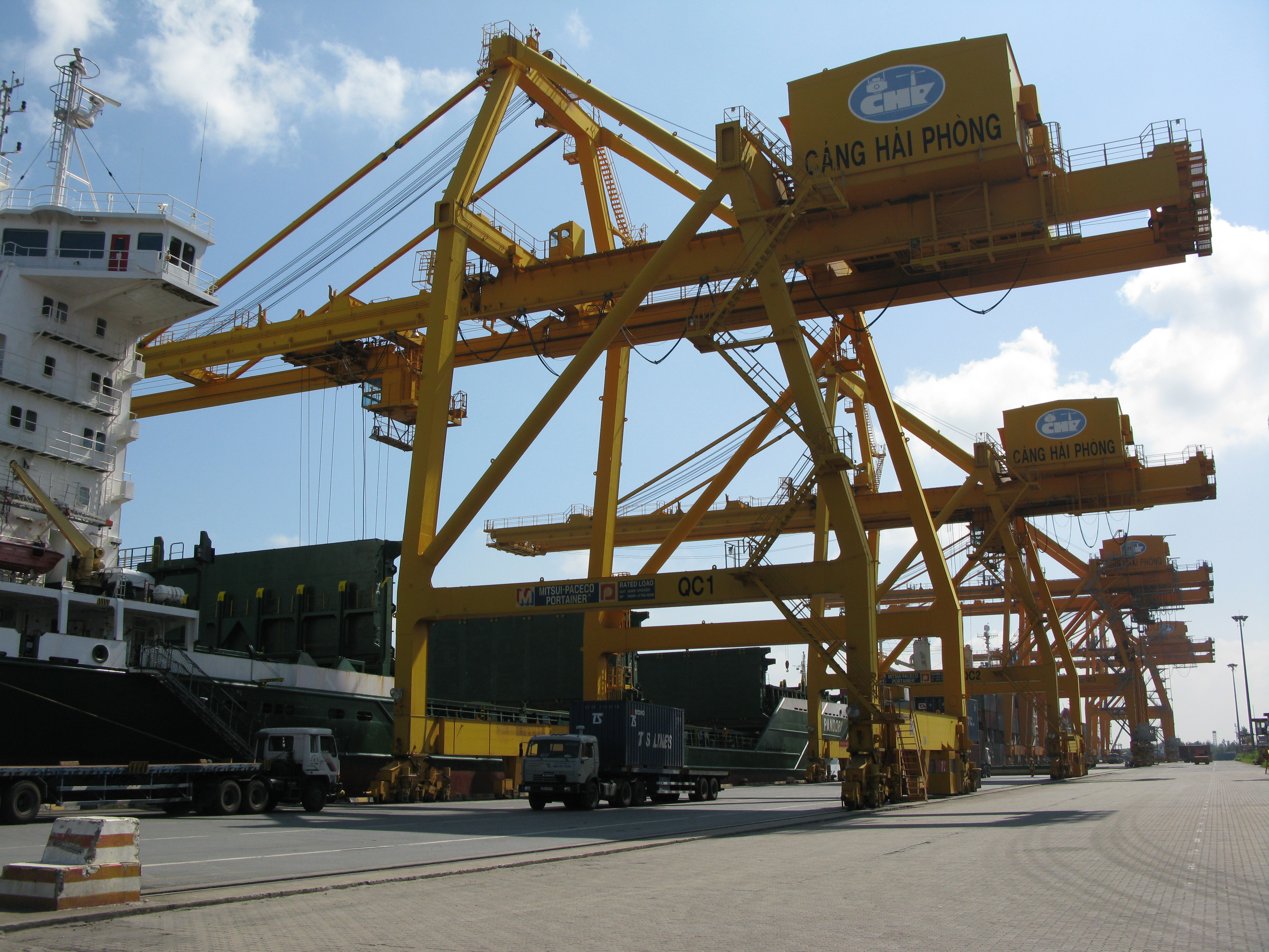 In Chùa Vẽ International Container Terminal, the Port of Hải Phòng, Việt Nam